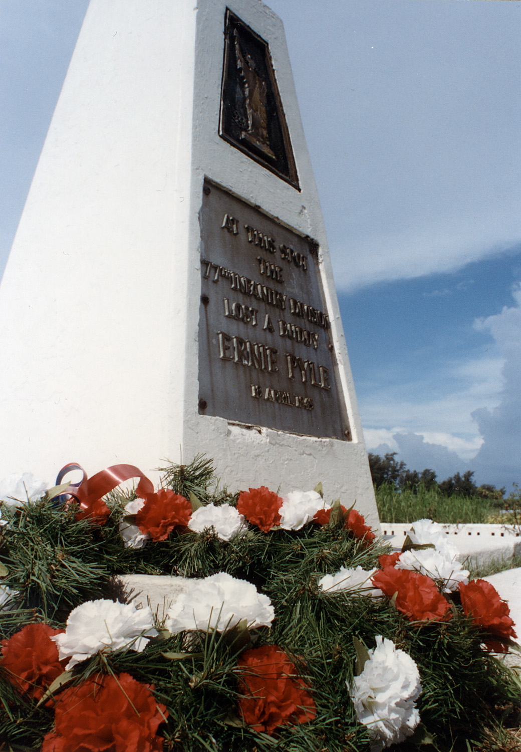 Ernie Pyle Memorial, Okinawa, Japan. I took this photo in about 1993. It's the memorial to , journalist who died here in the during World War II. Inscription AT THIS SPOTTHE77TH INFANTRY DIVISIONLOST A BUDDYERNIE PYLE18 APRIL, 1945 I took this photograph and contribute it to the public domain.